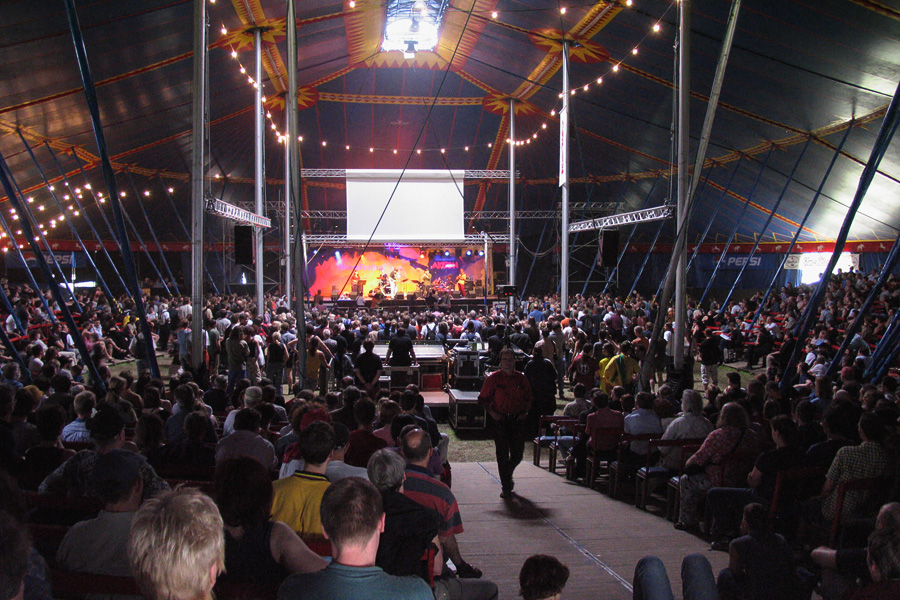 interior view of the festival marquee Moers Festival 2004 own photo, may 30, 2004